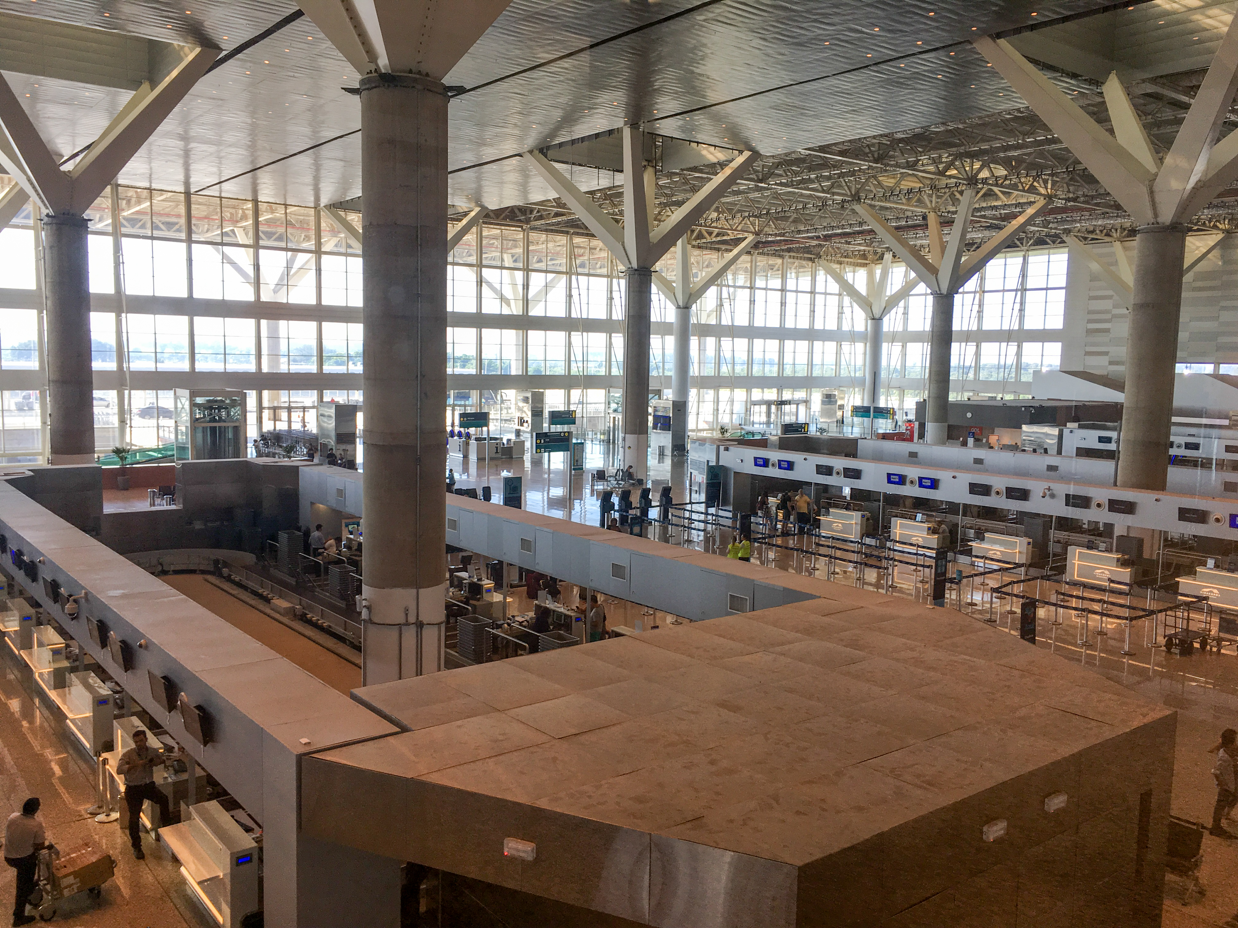 Viracopos-Campinas International Airport, Brazil